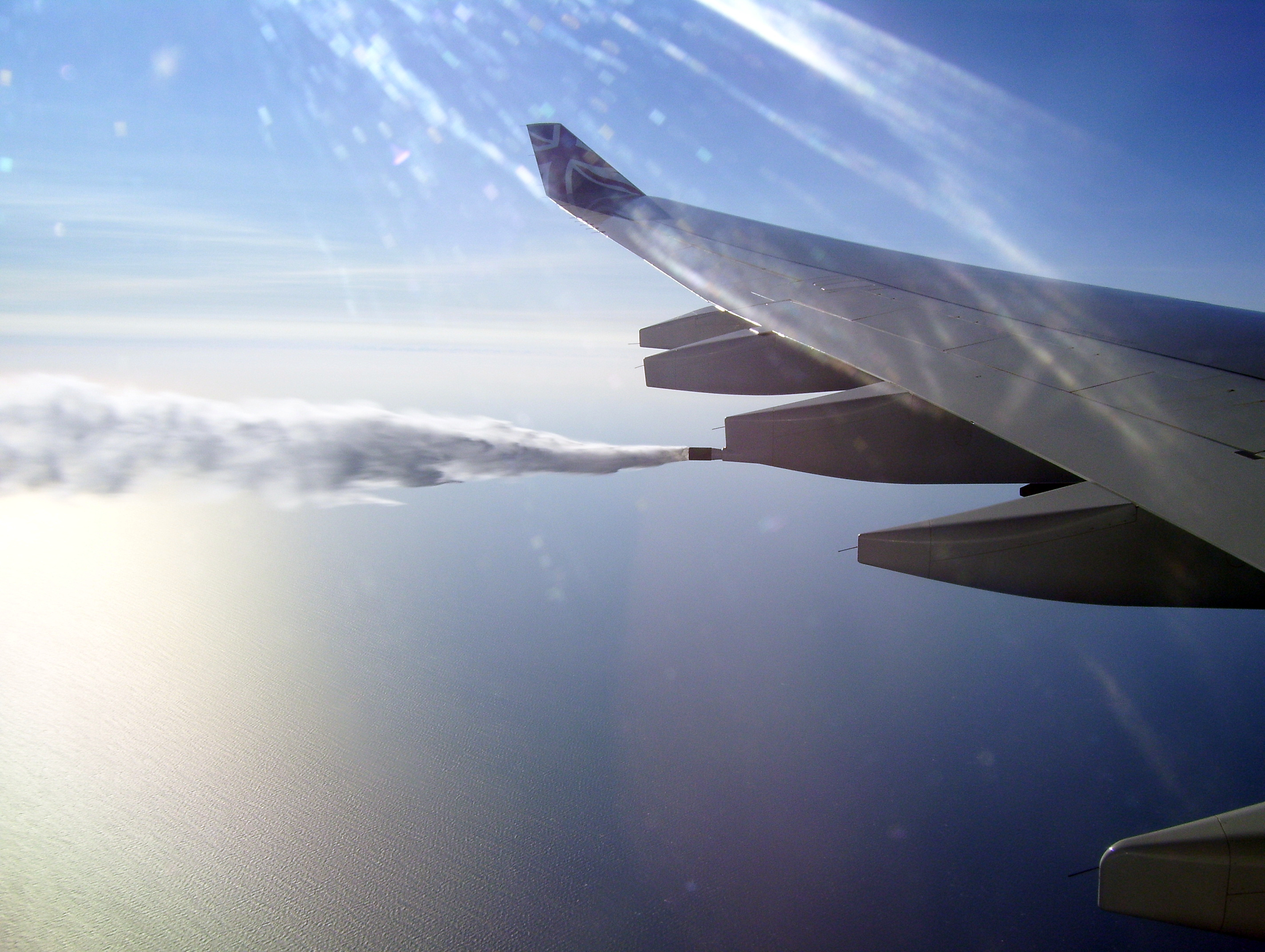 Fueldump of an Airbus 340-600 over the Atlantic near Nova Scotia